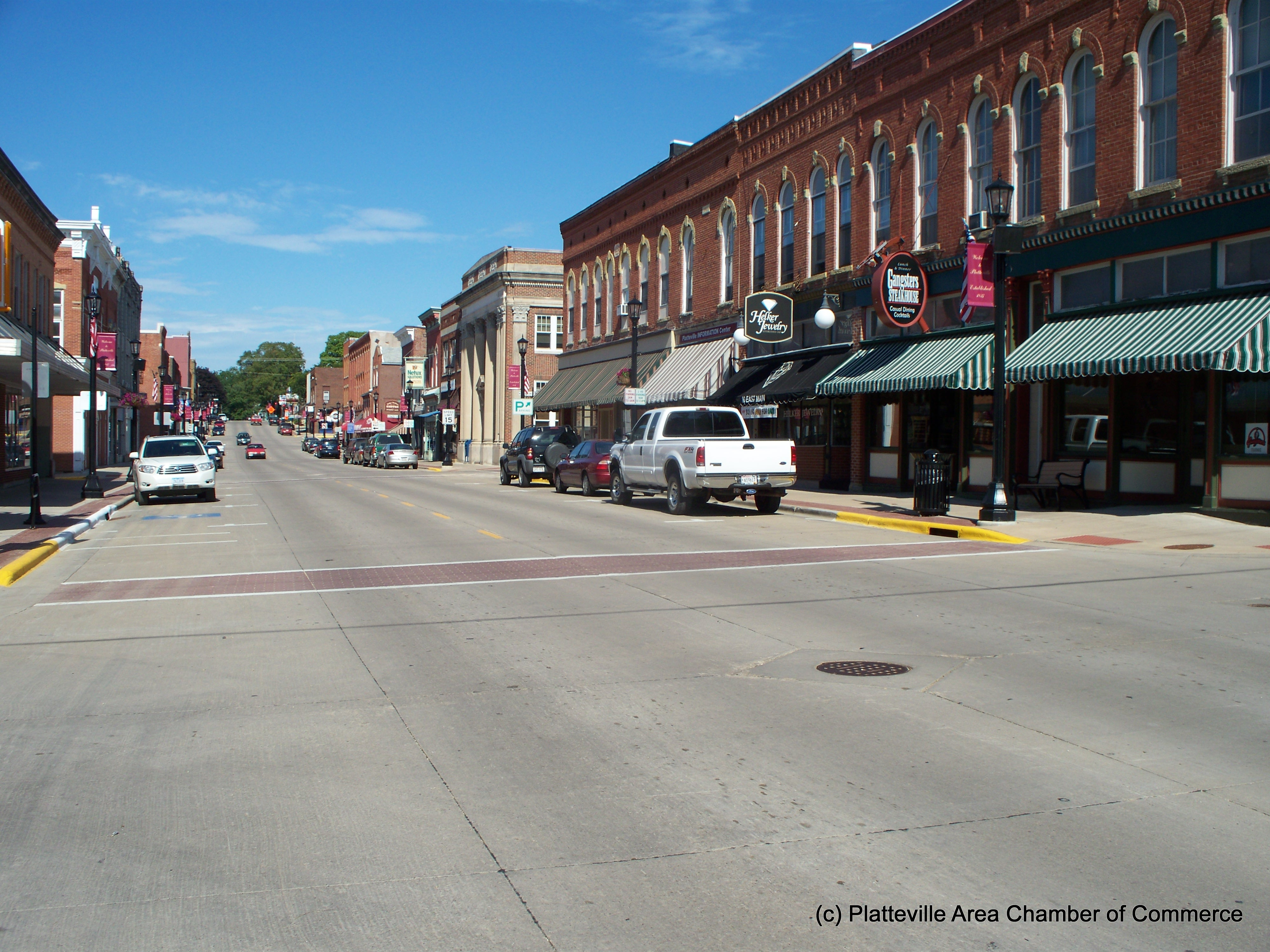 Platteville's Historic Main Street was reconstructed in 2008. Stop in at all the great locally owned businesses and see what Platteville has to offer!